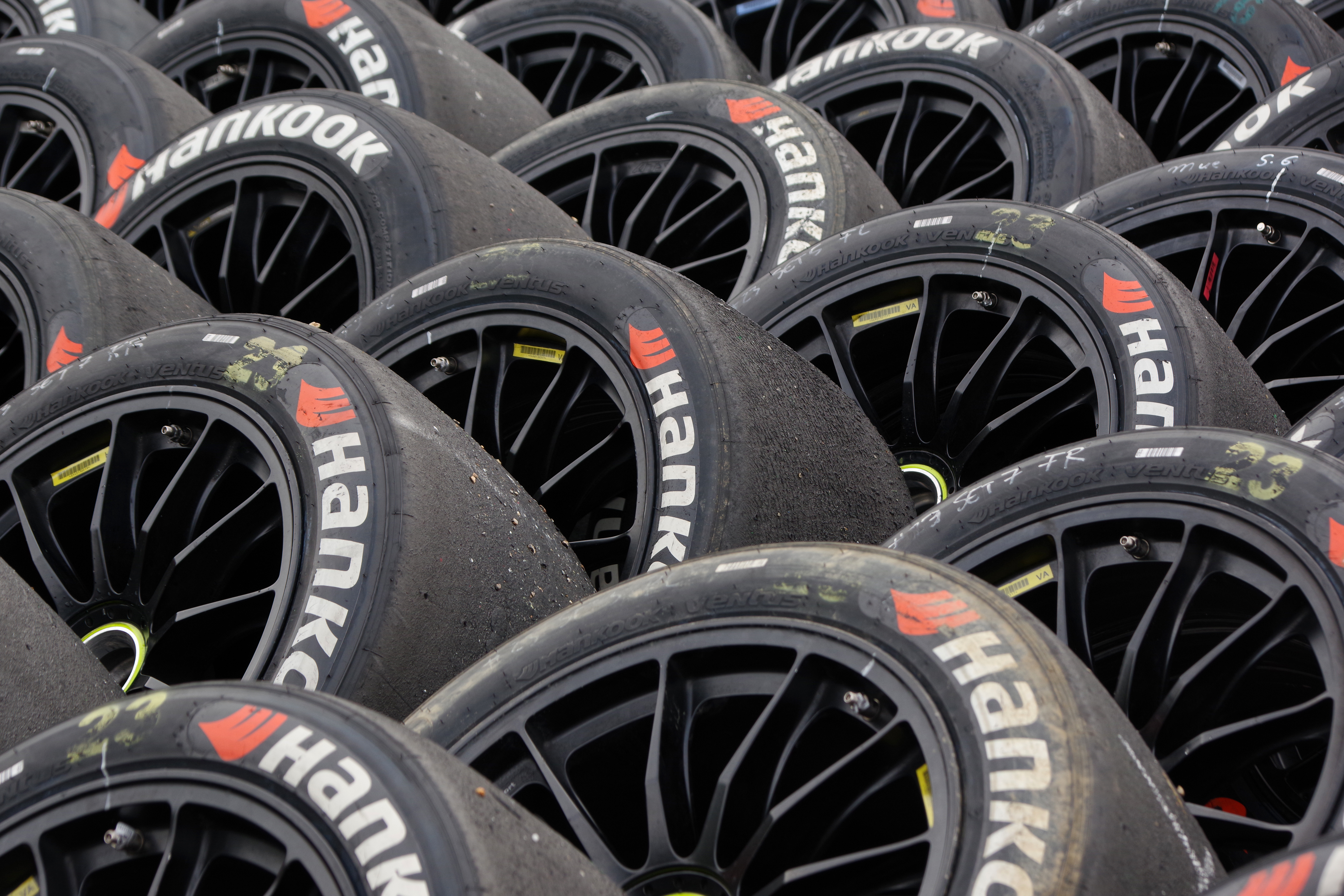 Hankook Deutsche Tourenwagen Masters tyres in the paddock at Brands Hatch 2019.